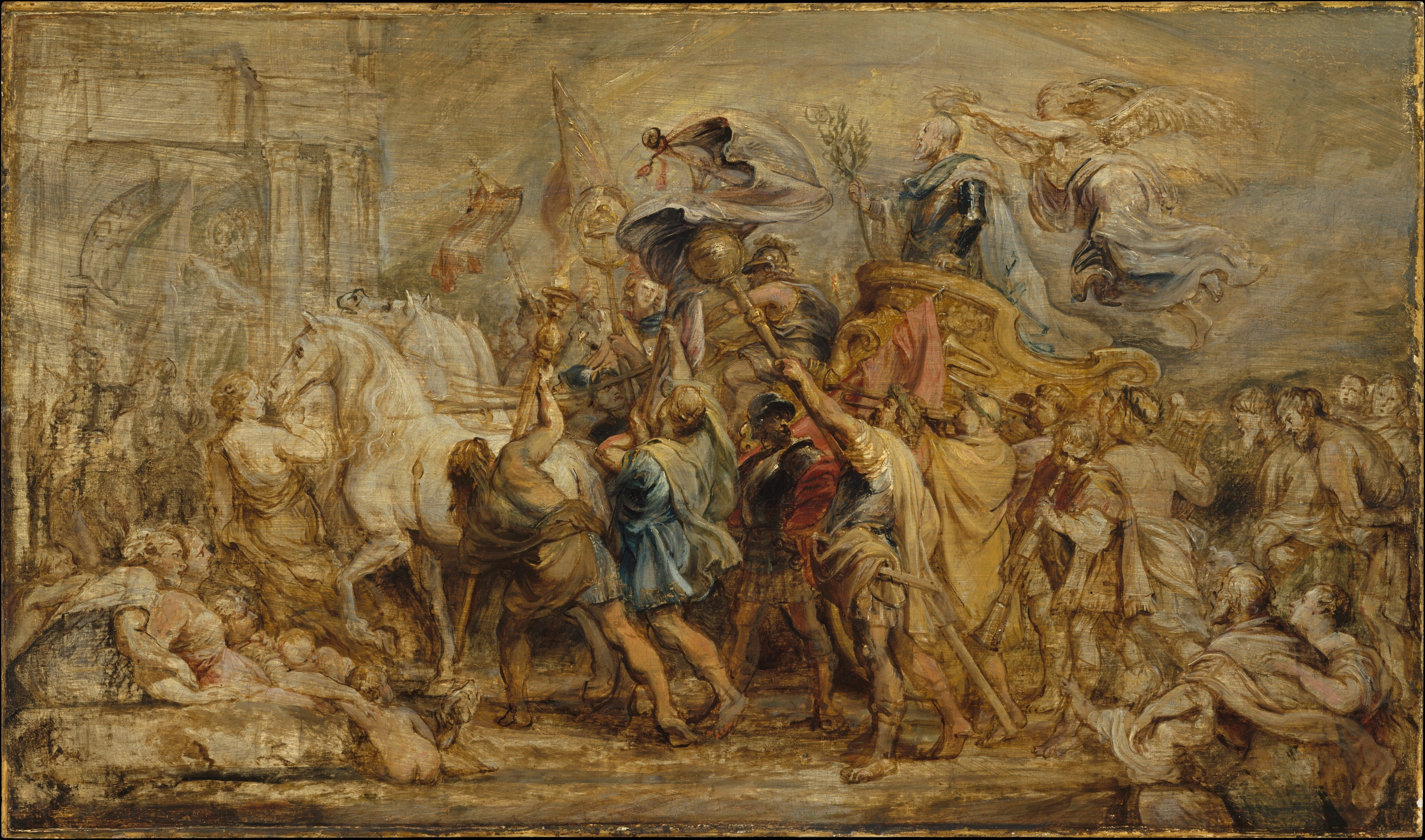 The Triumph of Henry IV Peter Paul Rubens (Flemish, Siegen 1577–1640 Antwerp) Date: 1627–31 Medium: Oil on wood Dimensions: 19 1/2 x 32 7/8 in. (49.5 x 83.5 cm) Classification: Paintings Credit Line: Rogers Fund, 1942 Accession Number: 42.187 This artwork is currently on display in Gallery 630 Share Add to MyMet Description Between 1627 and 1631 Rubens was engaged on a series of large paintings celebrating the life of Henry IV of France. Commissioned by the Queen Mother for the Palais de Luxembourg, they were intended to complement the famous cycle devoted to Marie de' Medici, now in the Louvre. Execution of the cycle was interrupted for political reasons, and six of the full-scale canvases were still in Rubens' studio at his death. The full-scale version of the present painting is in the Uffizzi, Florence, and an earlier grisaille sketch is in the Wallace Collection, London. The present composition has also been described as the Triumphal Entry of Henry IV into Paris. The sketch has been transferred from the original panel to a modern panel, and has suffered from abrasion in some areas.